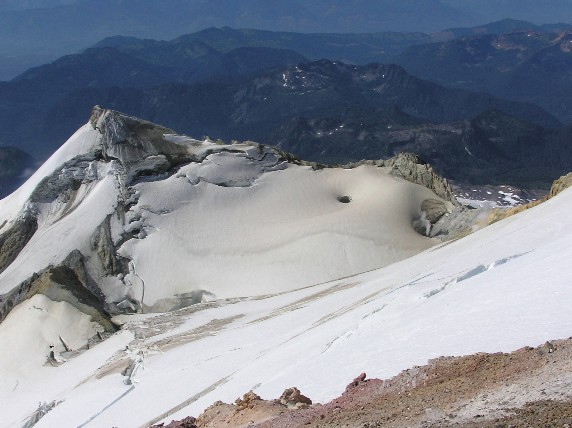 Looking into Sherman Crater at Mount Baker, looking down from the summit at Grant Peak